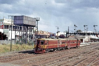 NSWGR Railmotor departing Junee